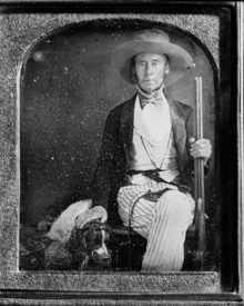 Daguerreotype of John Armstrong, Jr. with dog taken in 1840.